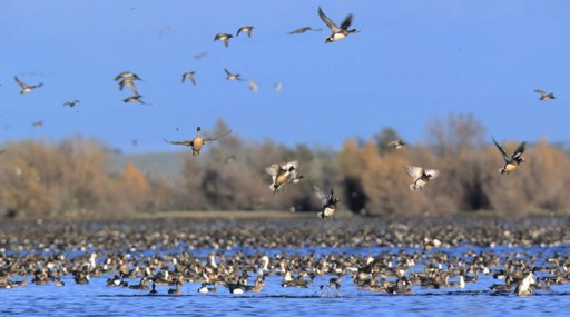 Ducks landing at Butte Sink Wildlife Management Area in California